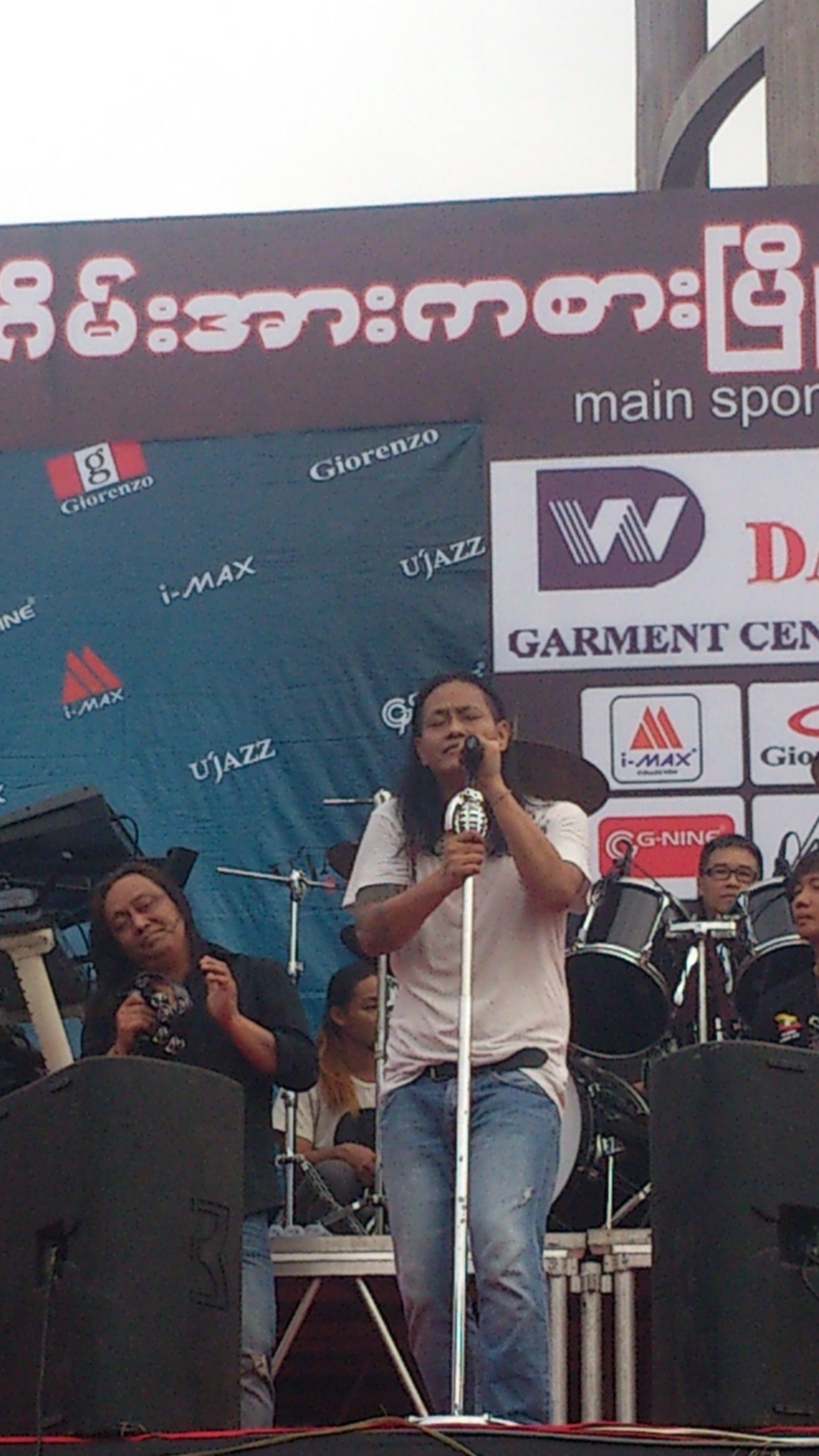 Burmese rock singer Lay Phyu မြန်မာဘာသာ: မြန်မာ ရော့ခ်အဆိုတော် လေးဖြူ